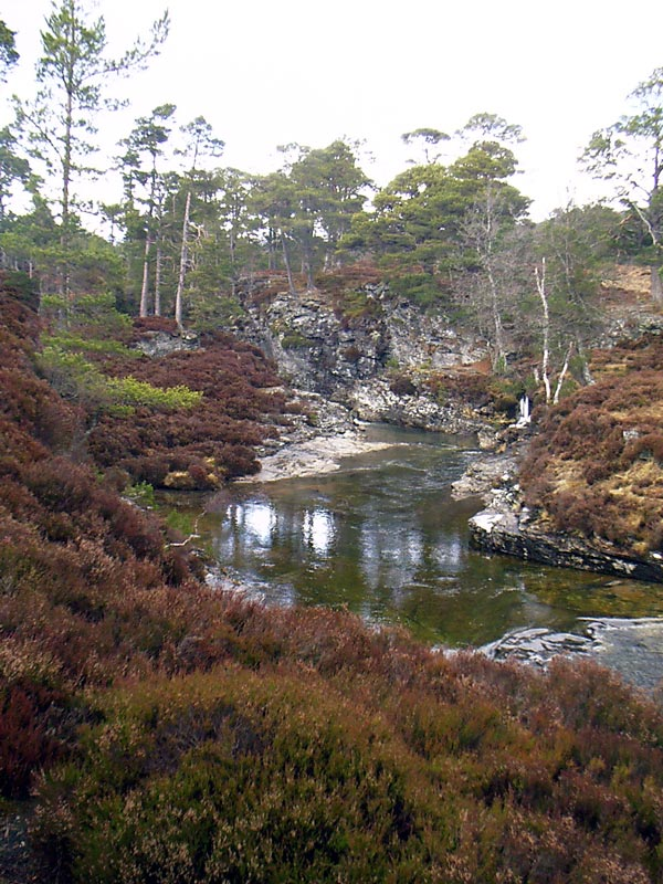 This photograph shows the River Lui between Black Bridge and the Linn of Lui looking upriver and was taken on 07MAR04.